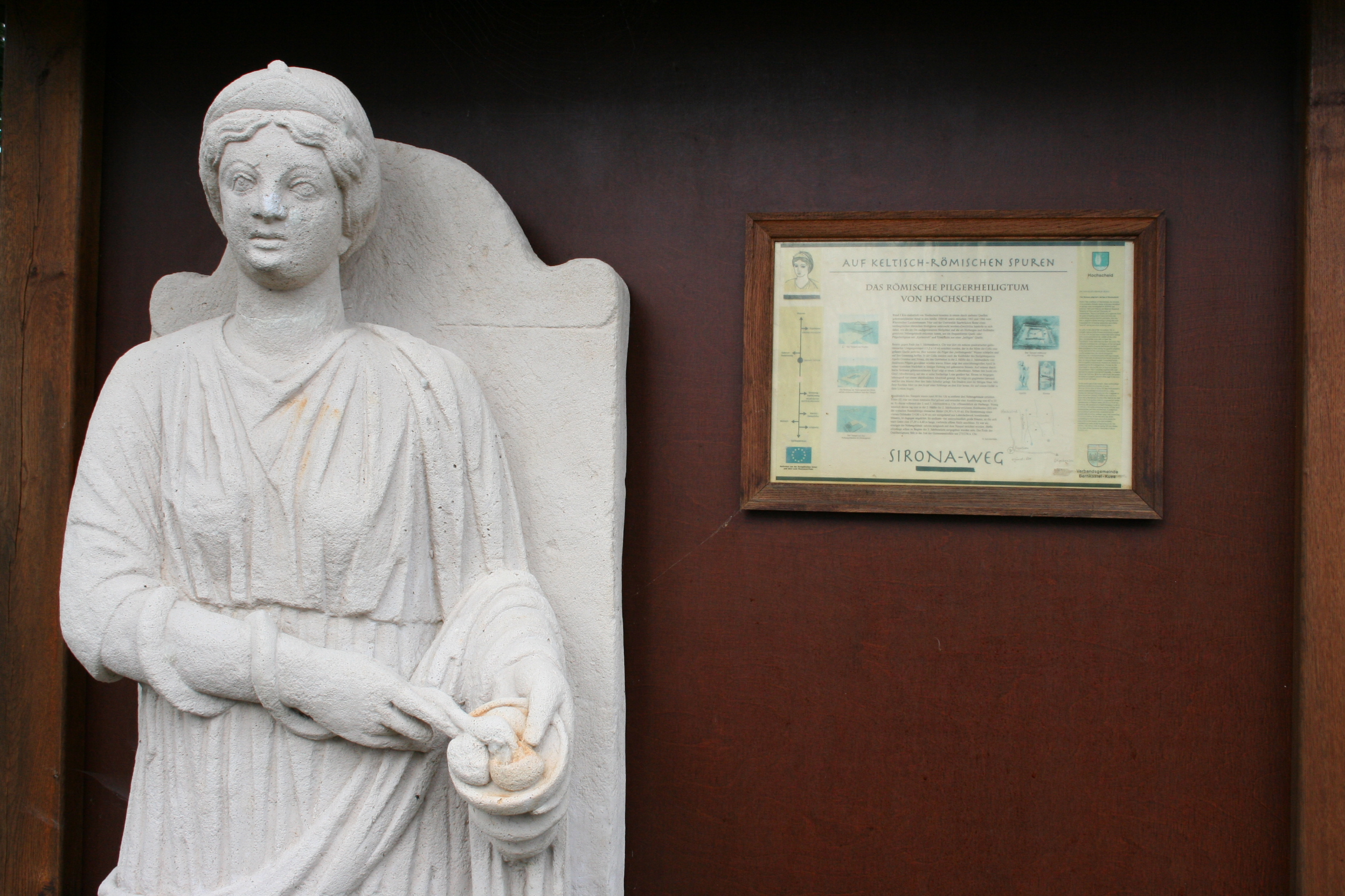 Cult image of Sirona at Hochscheid, Germany (reproduction?).